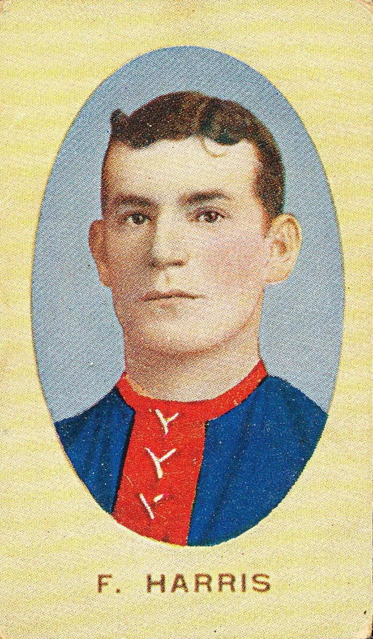 Cigarette card of Frank Harris from the Sniders & Abrahams 1910 series